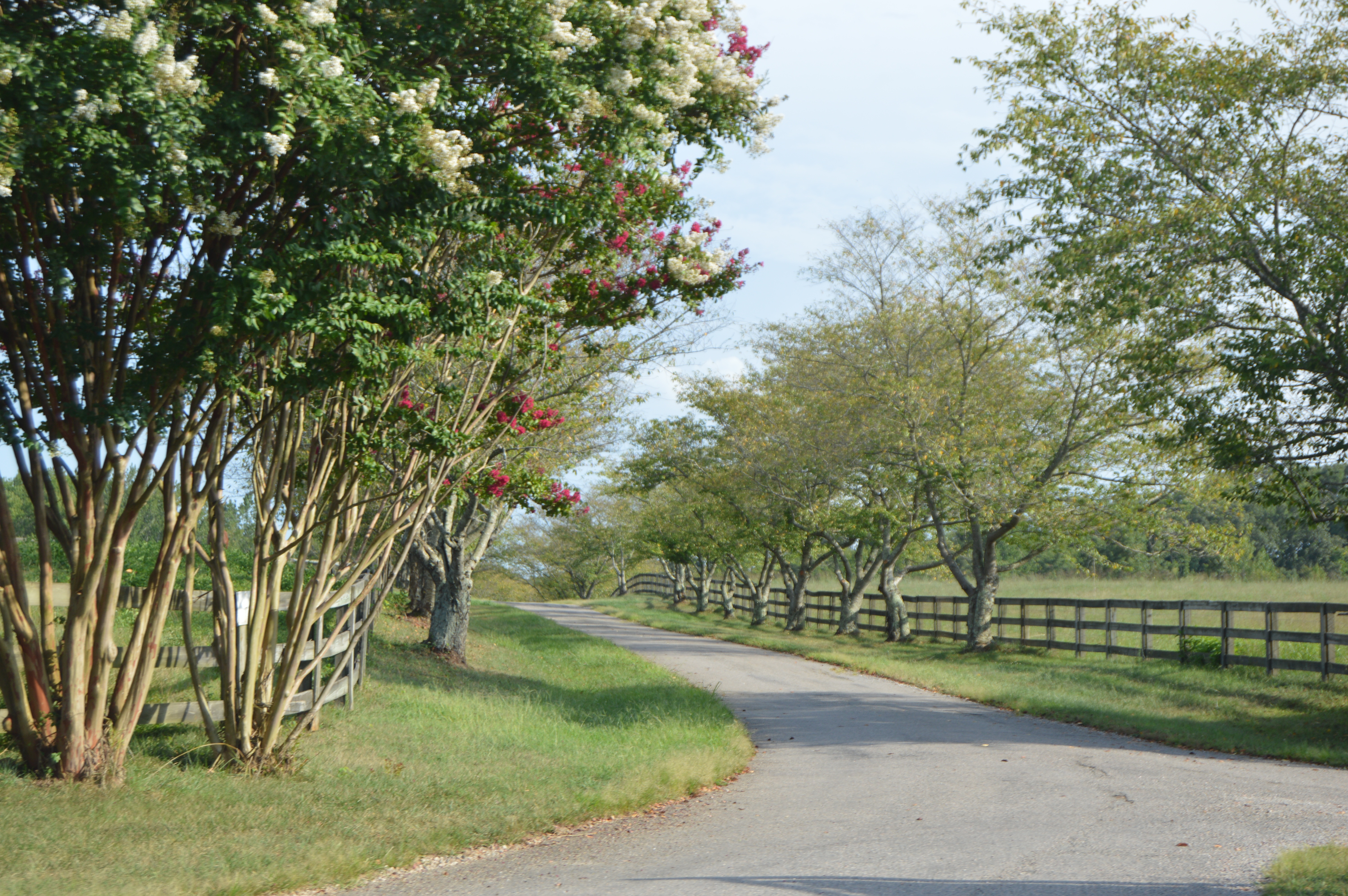 Driveway to Bolling Hall, located off Rock Castle Road west of Goochland Court House in Goochland County, Virginia, United States. The estate is listed on the National Register of Historic Places.